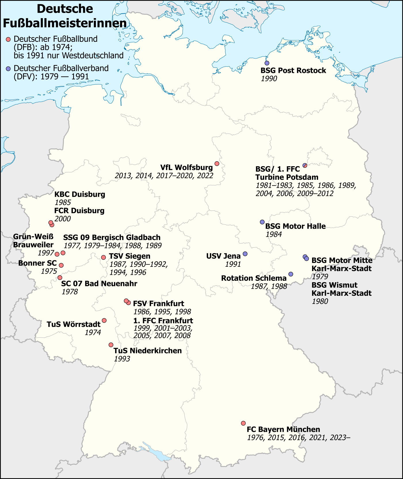 Map of German Women's Soccer Champions, starting 1974